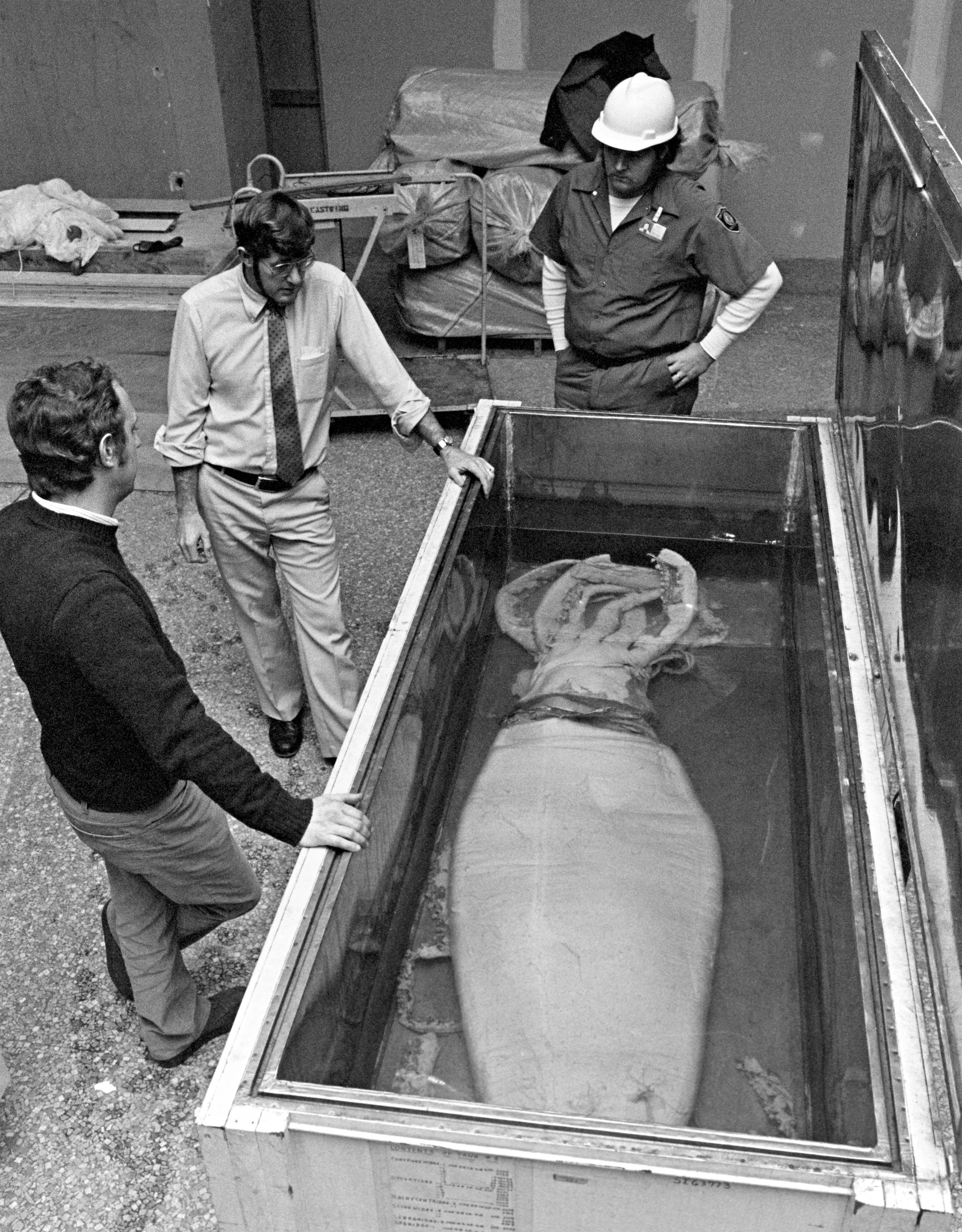 1983. Museum specialist Mike Sweeney, Curator Clyde F. E. Roper, and forklift operator Charles Beggs examining a Giant Squid specimen to be put on display at the National Museum of Natural History.